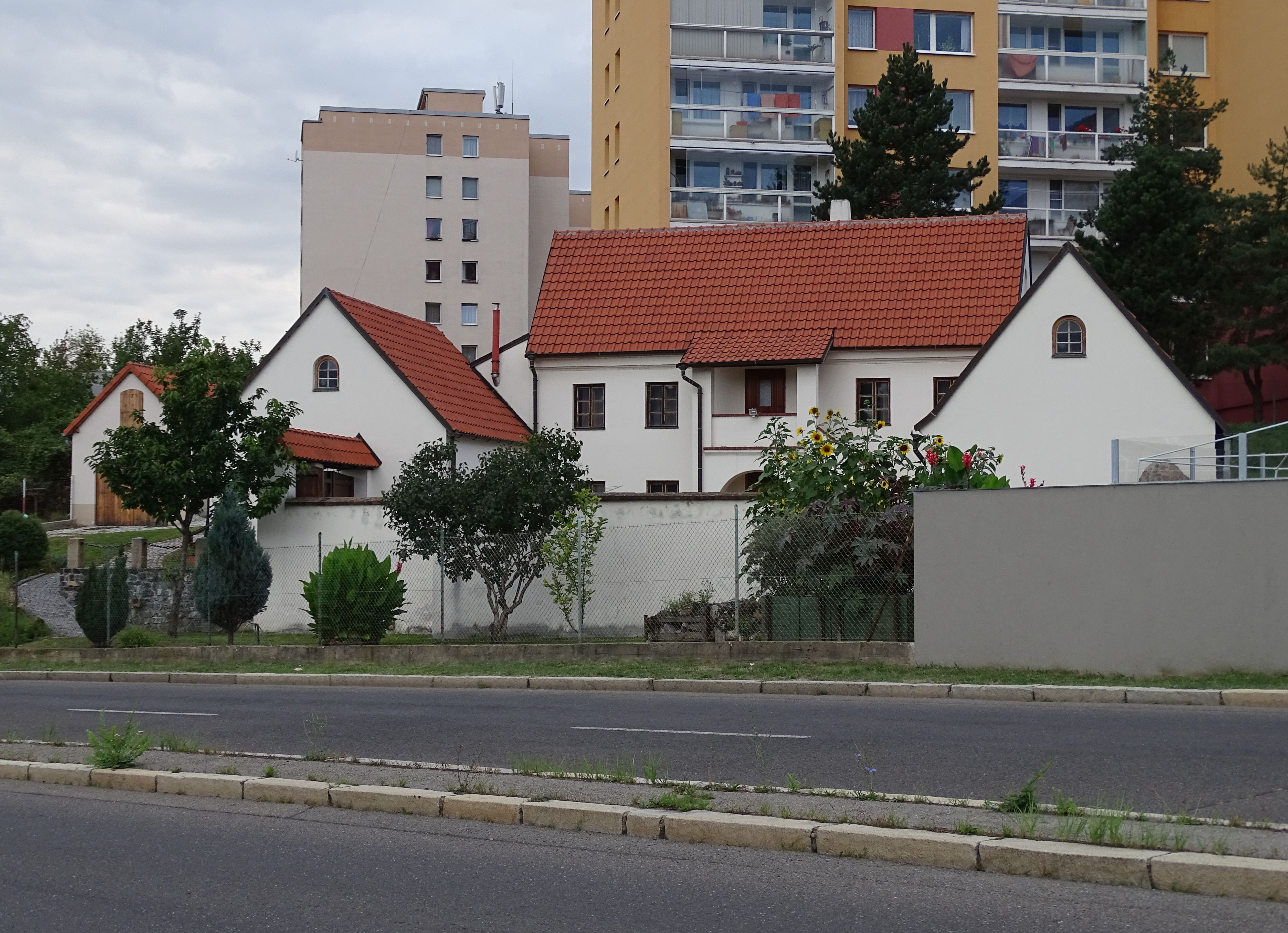 Prague-Troja, Czech Republic. K Pazderkám street, K Bohnicím 63/4, Pazderka.